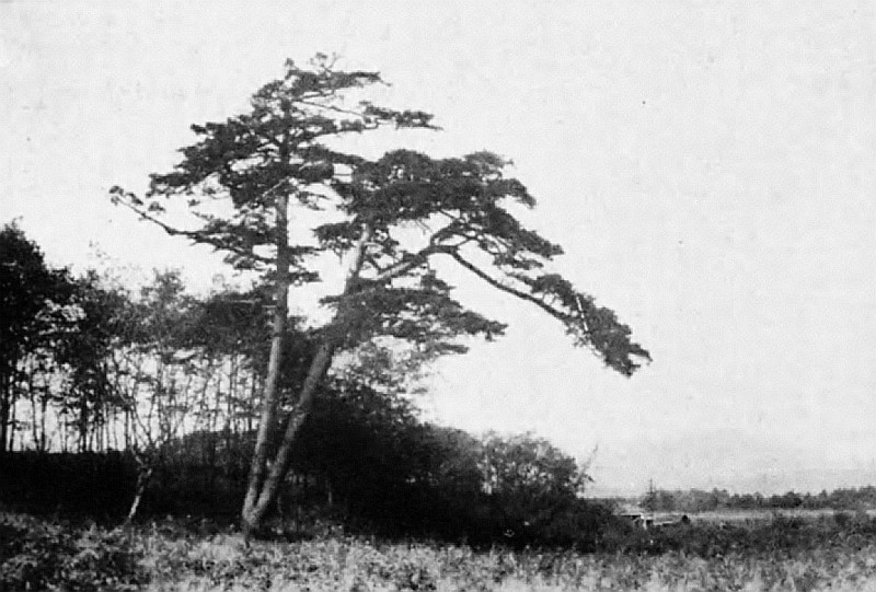 Aioi village Aioi-no-matsu.